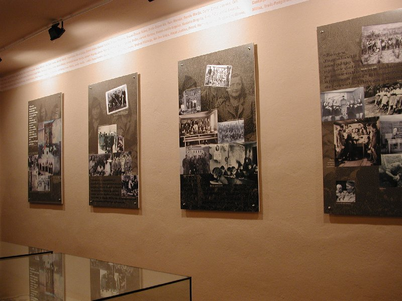 Memorial room for Antifascist Women's League in Dobrnič, Slovenia